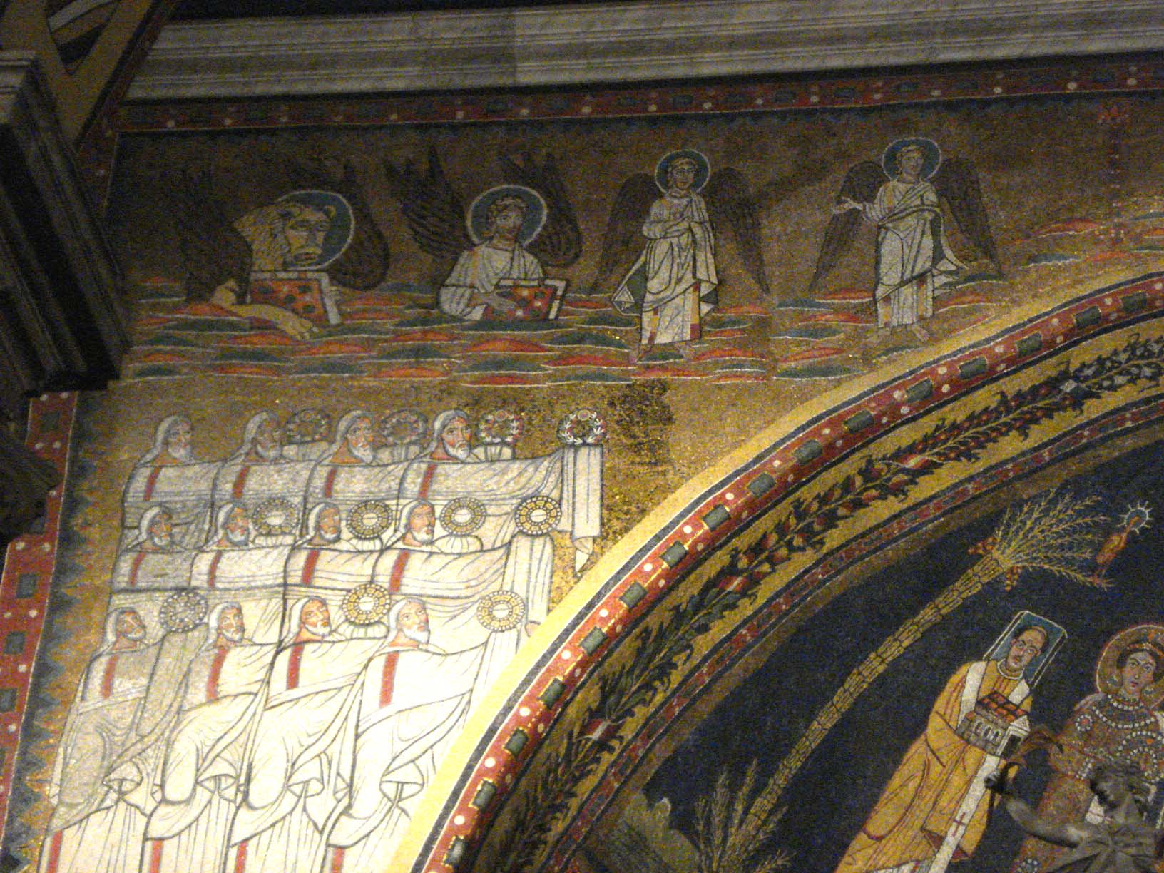 Santa Prassede-apse arch-left side